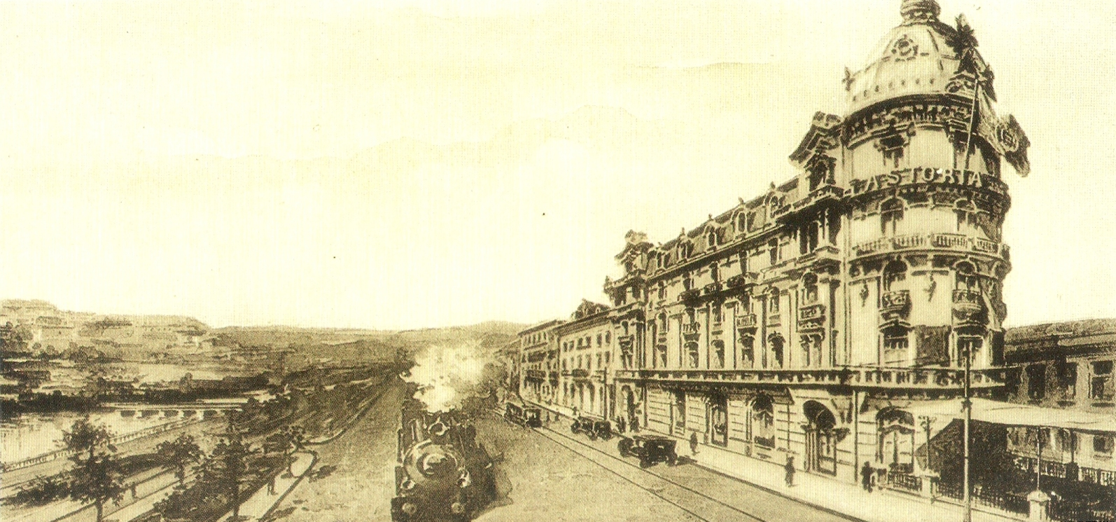 Train at the Lousã Railway, passing the Emídio Navarro Avenue near the Astoria Hotel, in the city of Coimbra, in Portugal.